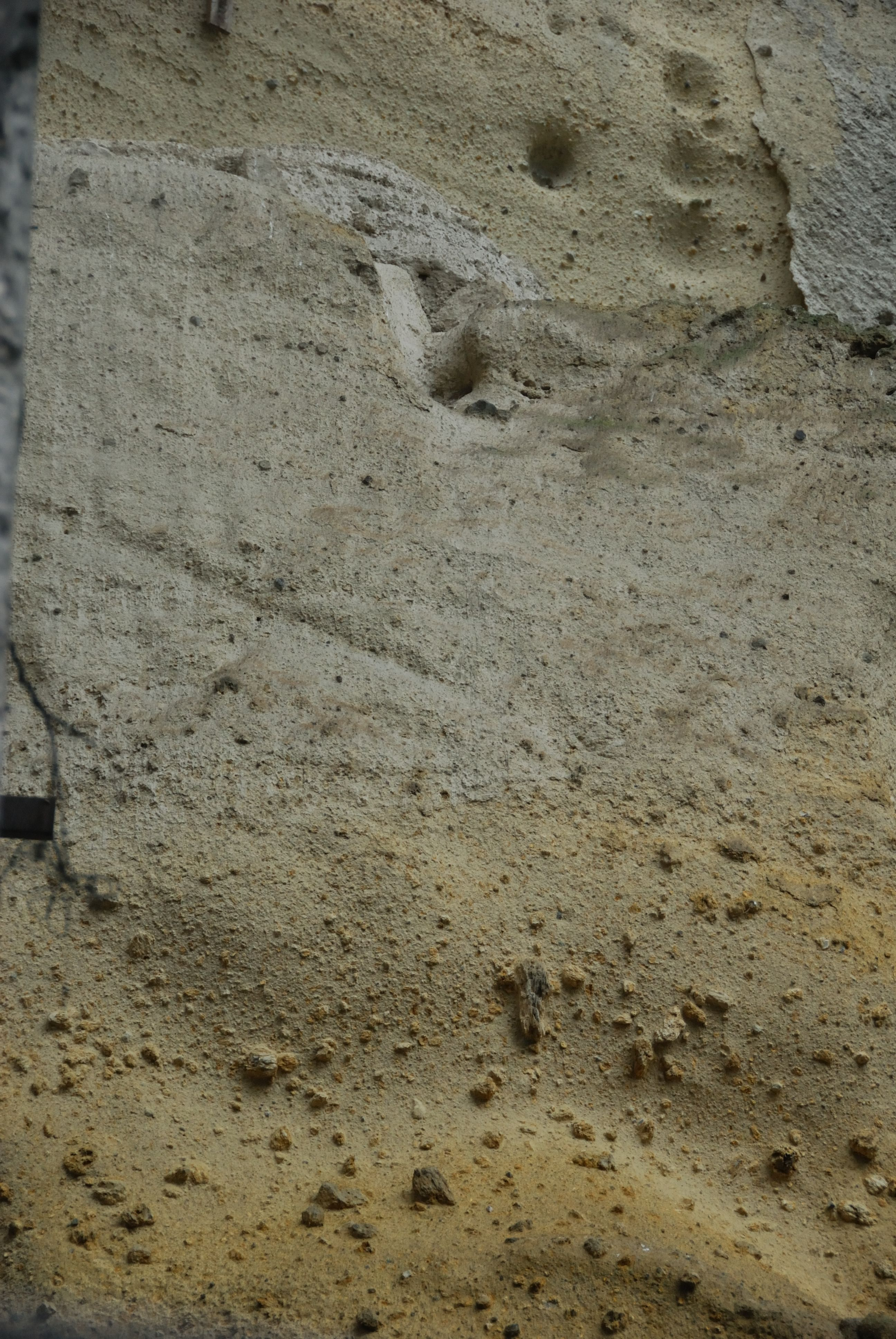 Field trip to Campi Flegrei